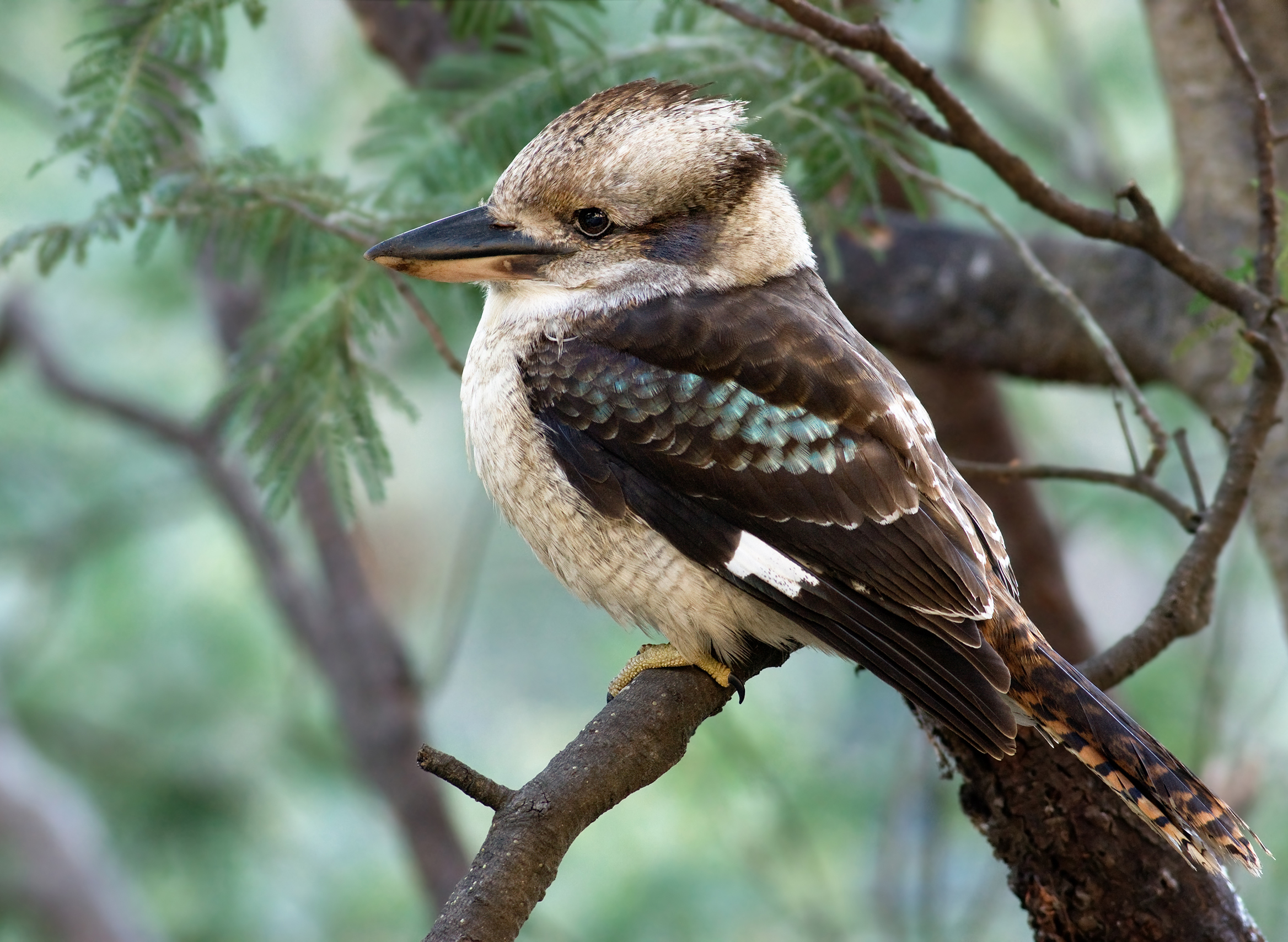 Laughing Kookaburra (Dacelo novaeguineae) perched on a Silver Wattle (Acacia dealbata), Waterworks Reserve, Hobart, Tasmania, Australia